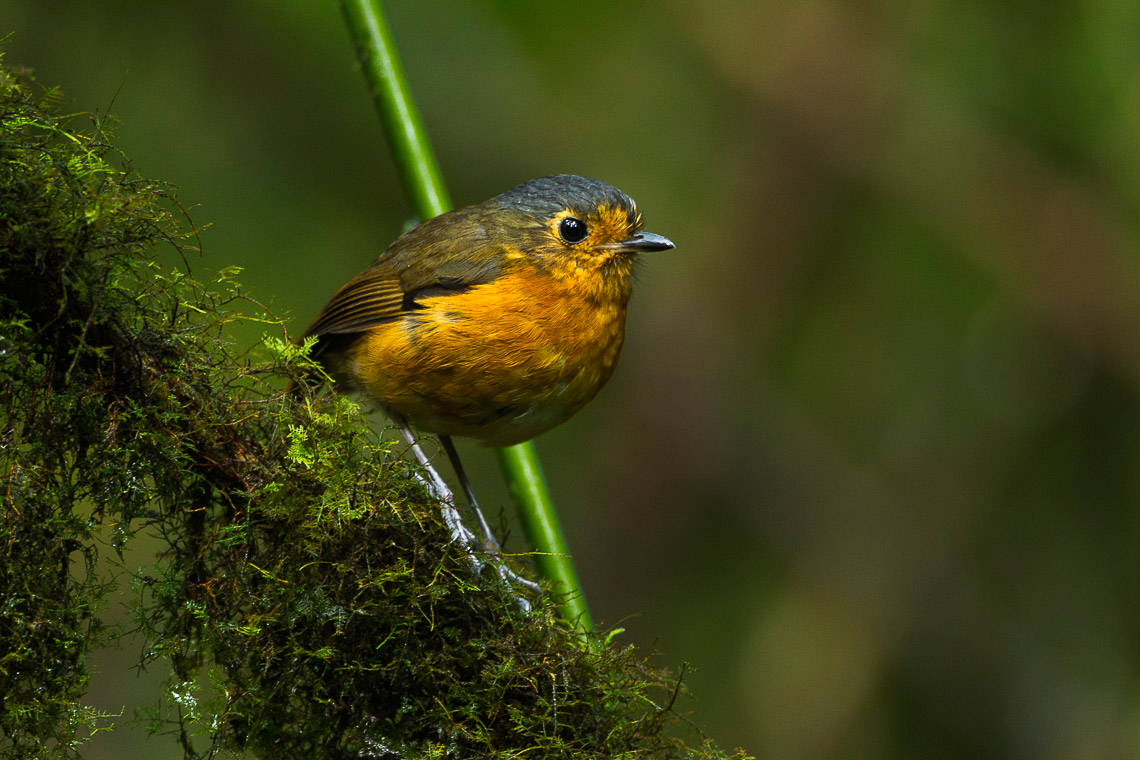 Slate-crowned Antpitta - Colombia_S4E1919